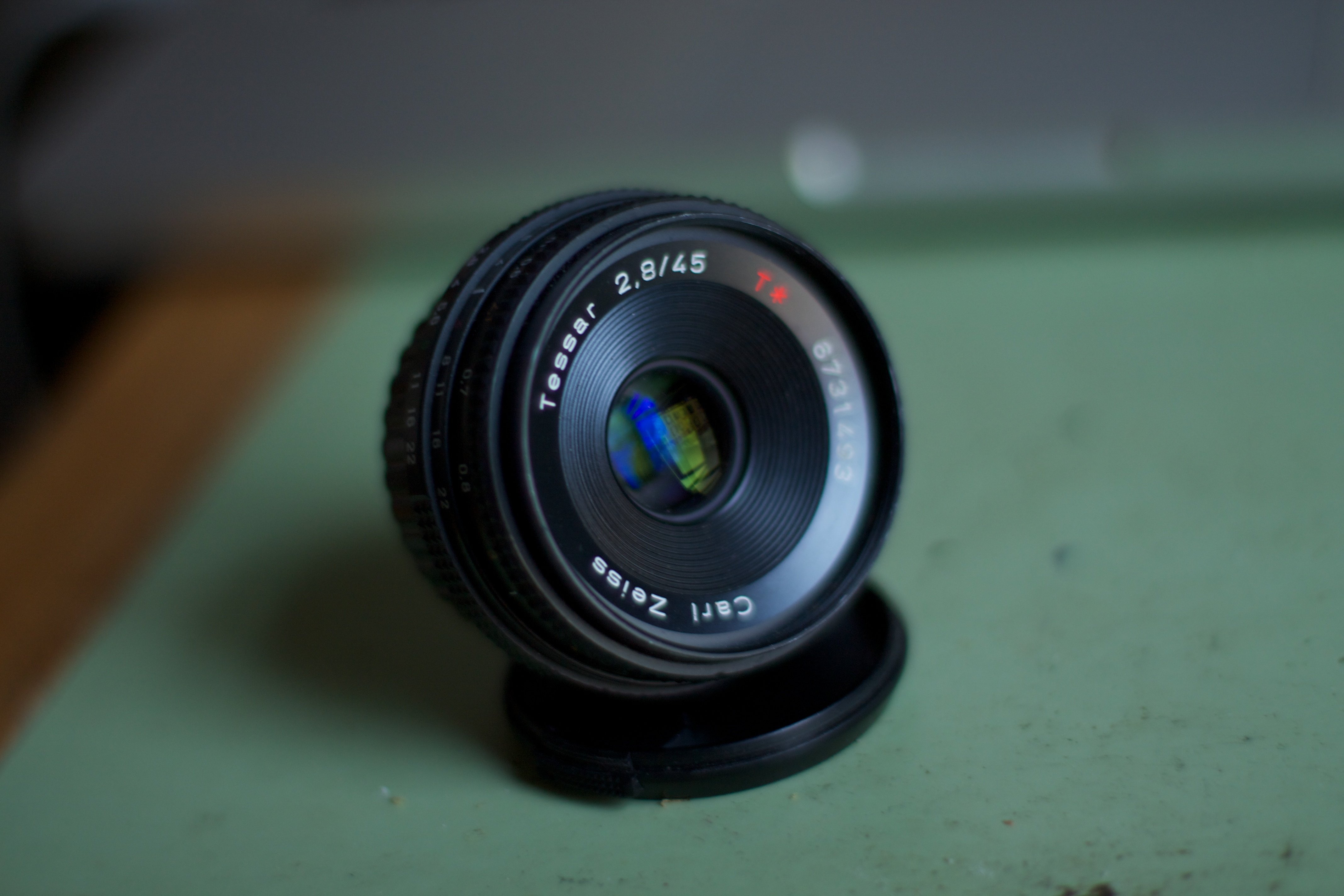 Carl Zeiss 45mm T* Tessar f2.8 Contax mount. Made in Japan.